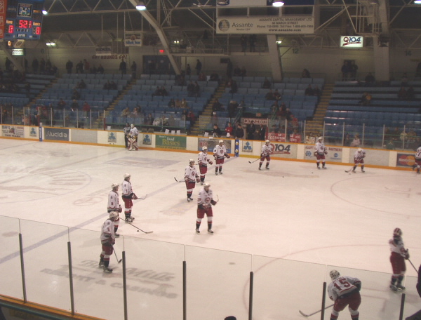 Sault Ste. Marie Greyhounds warming up, Self-taken photo.